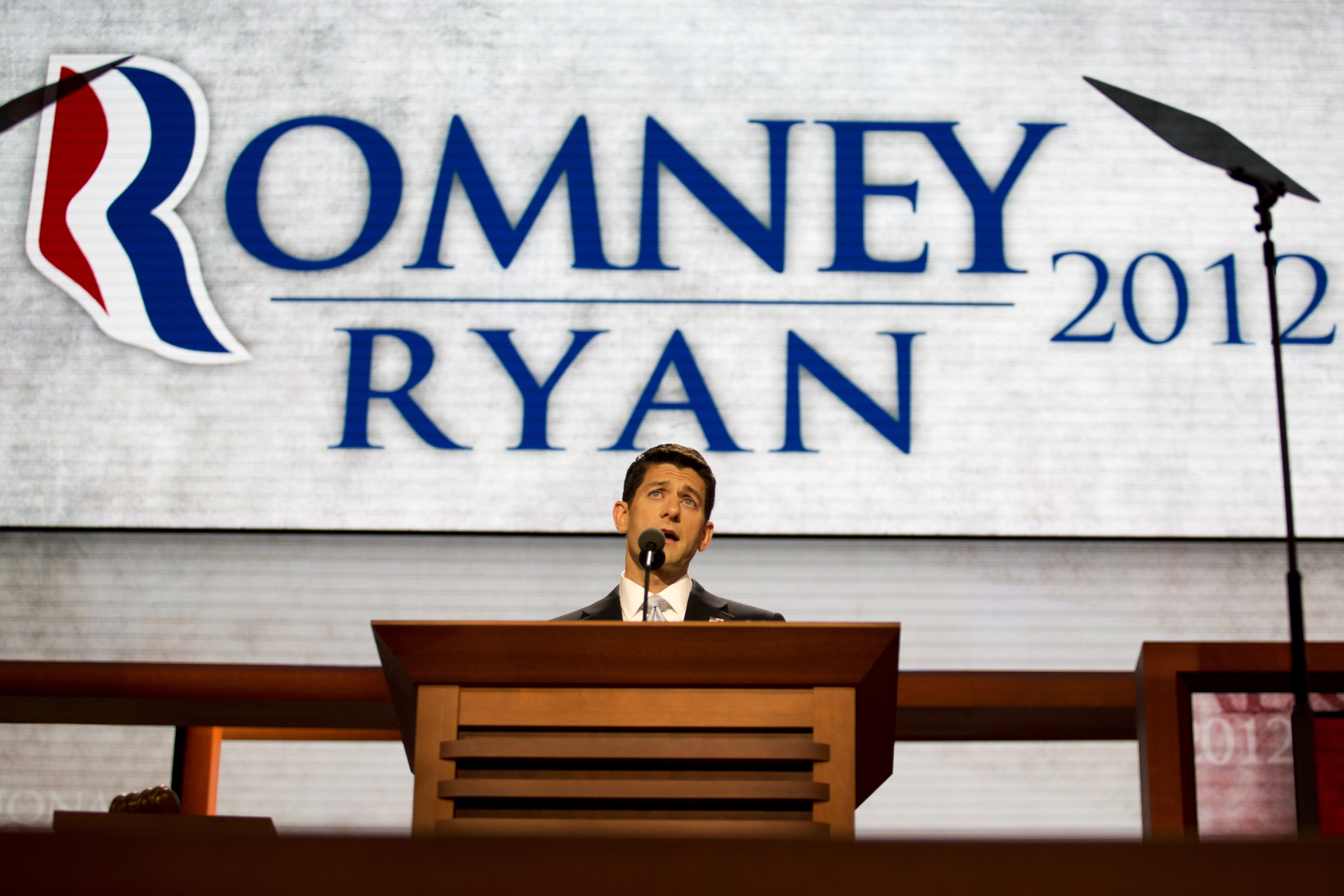 Paul Ryan gives a speech at the Tampa Bay Times Forum after accepting his nomination for vice president. Photo by Mallory Benedict/PBS NewsHour